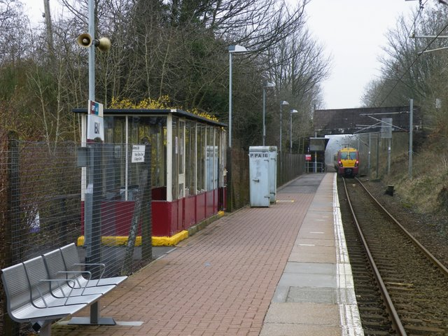 IBM Halt Looking northeast as a Glasgow Central bound train pulls out of the station.